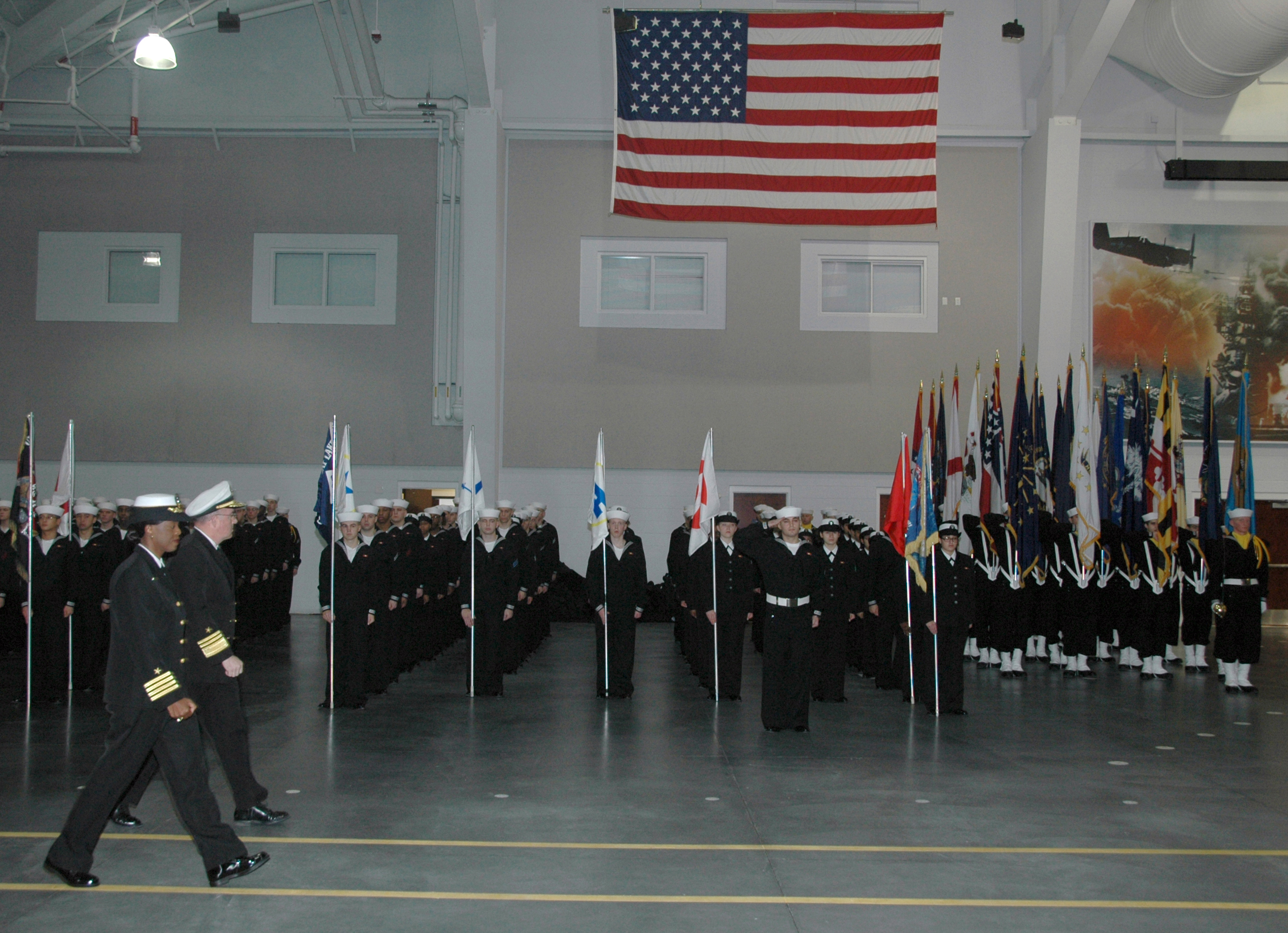 080111-N-8848T-005 GREAT LAKES, Ill. (Jan. 11, 2008) Vice. Adm. John C. Harvey Jr., Chief of Naval Personnel, and Capt. Annie B. Andrews, commanding officer of Recruit Training Command (RTC), pass in review of five graduating recruit divisions in the USS Midway Ceremonial Drill Hall at RTC at Naval Station Great Lakes. Harvey was the reviewing officer for the ceremony. Harvey also met with local leaders during his two-day visit and took part in an all hands call. U.S. Navy photo by Scott A. Thornbloom (Released)